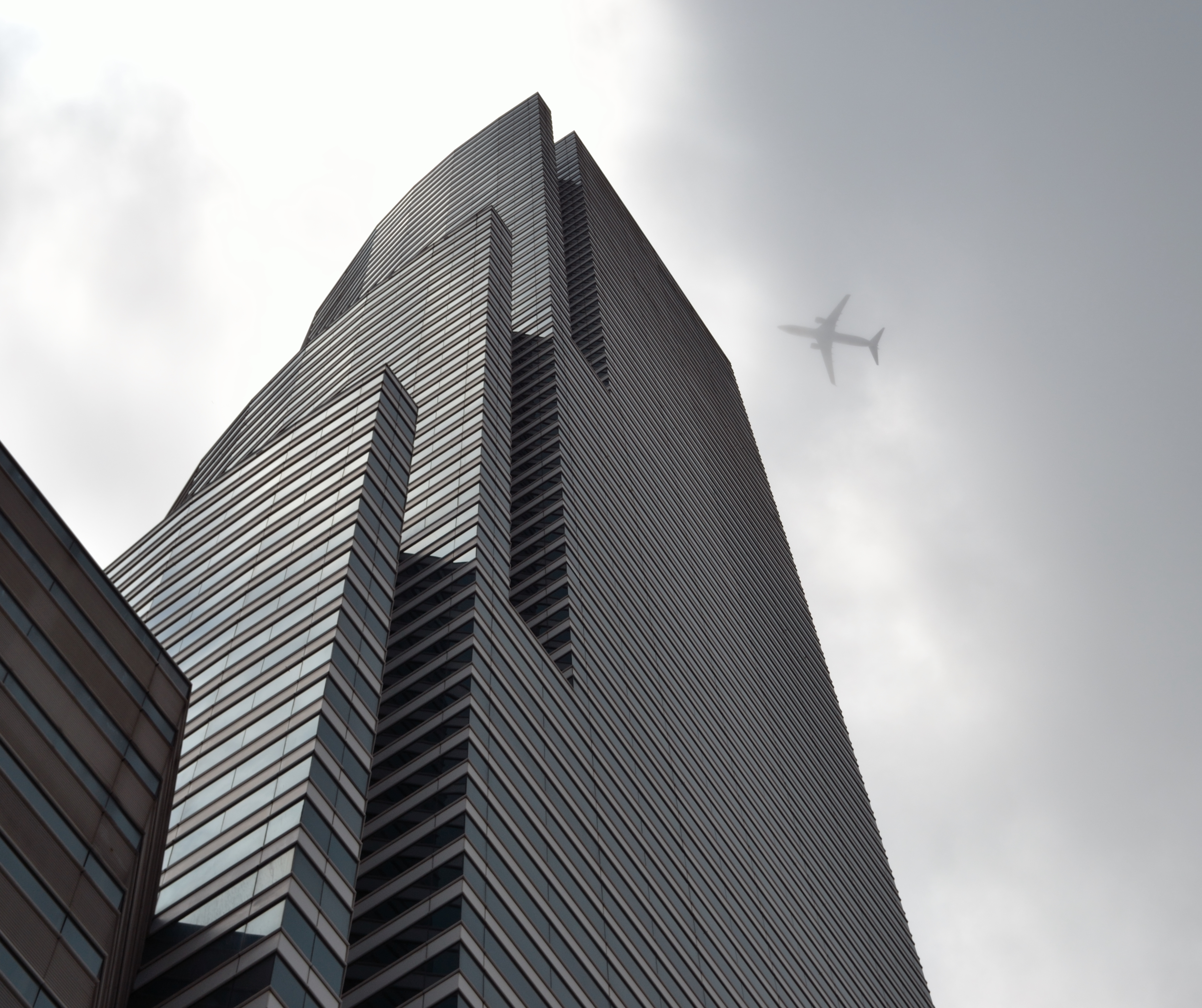 Forced perspective. The former Bank of America building is a landmark. The architect I.M. Pei designed the skyscraper. Now called Miami Tower.